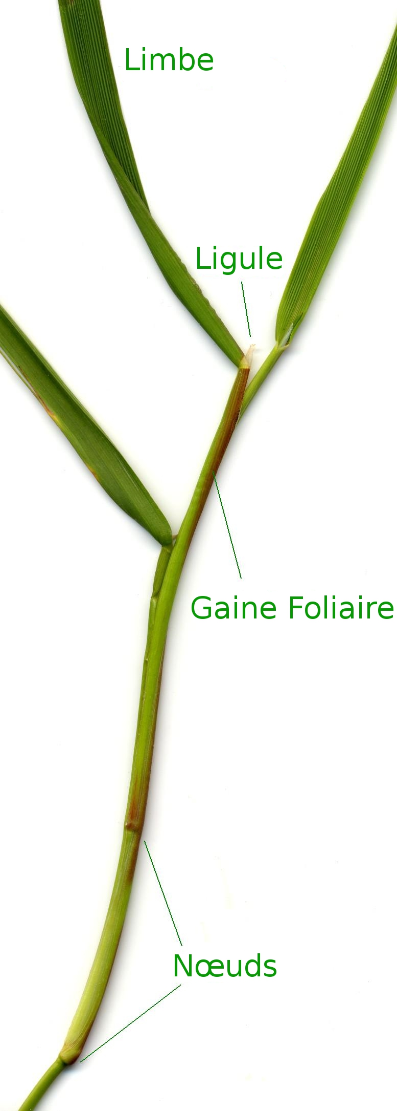 French translation of the file:Alopecurus(Teile).jpg